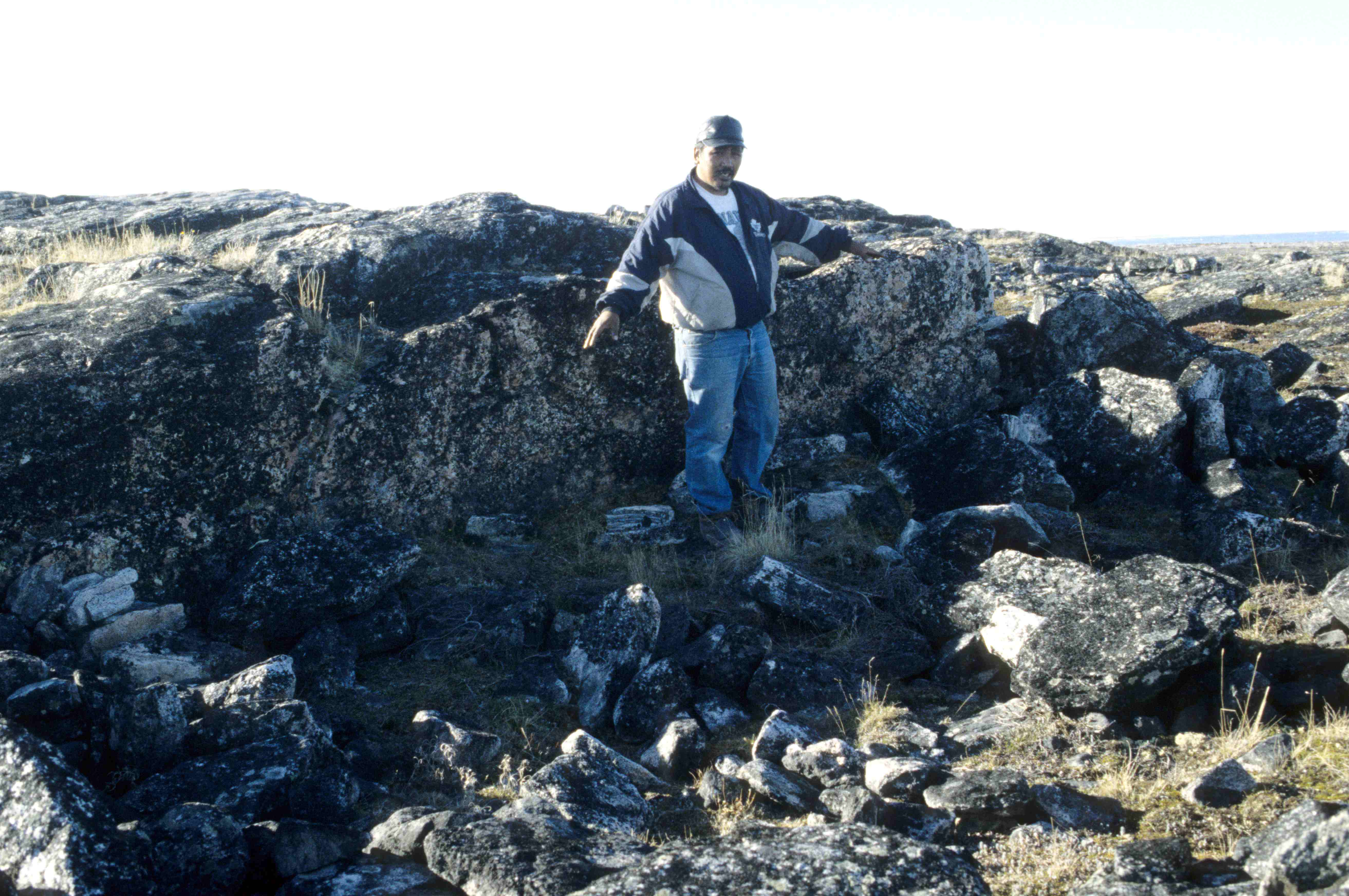 Inuk demonstrating Thule site